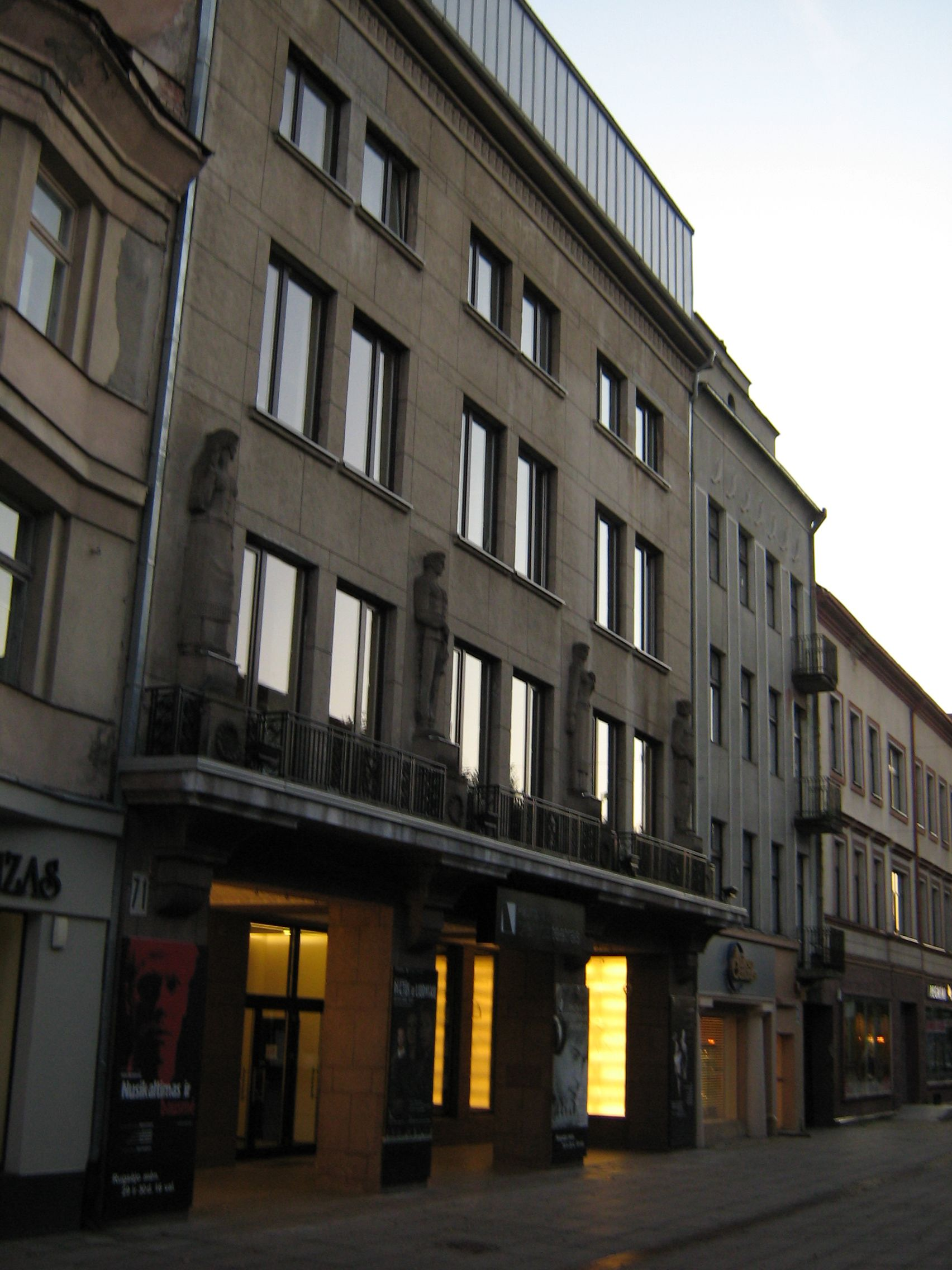 Kaunas State Drama Theatre in the evening.